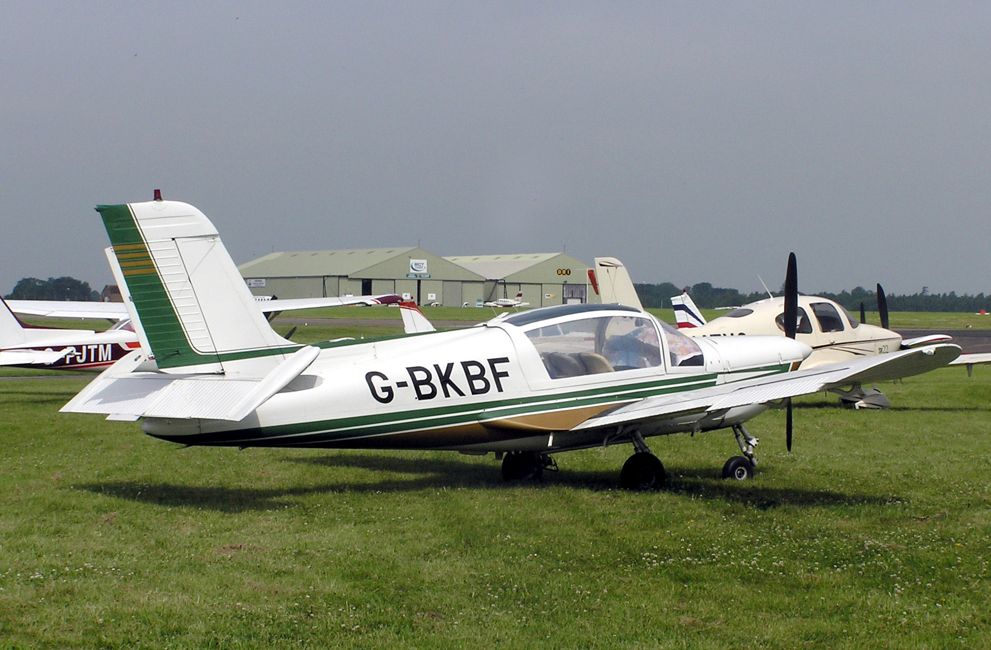 Morane-Saulnier (Socata) Rallye Minerva MS.894A (UK registration G-BKBF) at Kemble Airfield, Gloucestershire, England. Built 1970. Photographed by Adrian Pingstone in June 2005 and released to the public domain.